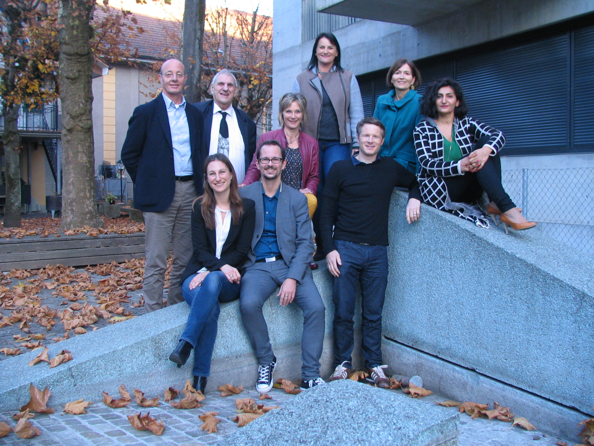 Members of the Swiss parliament, Green party, after the elections of 2015